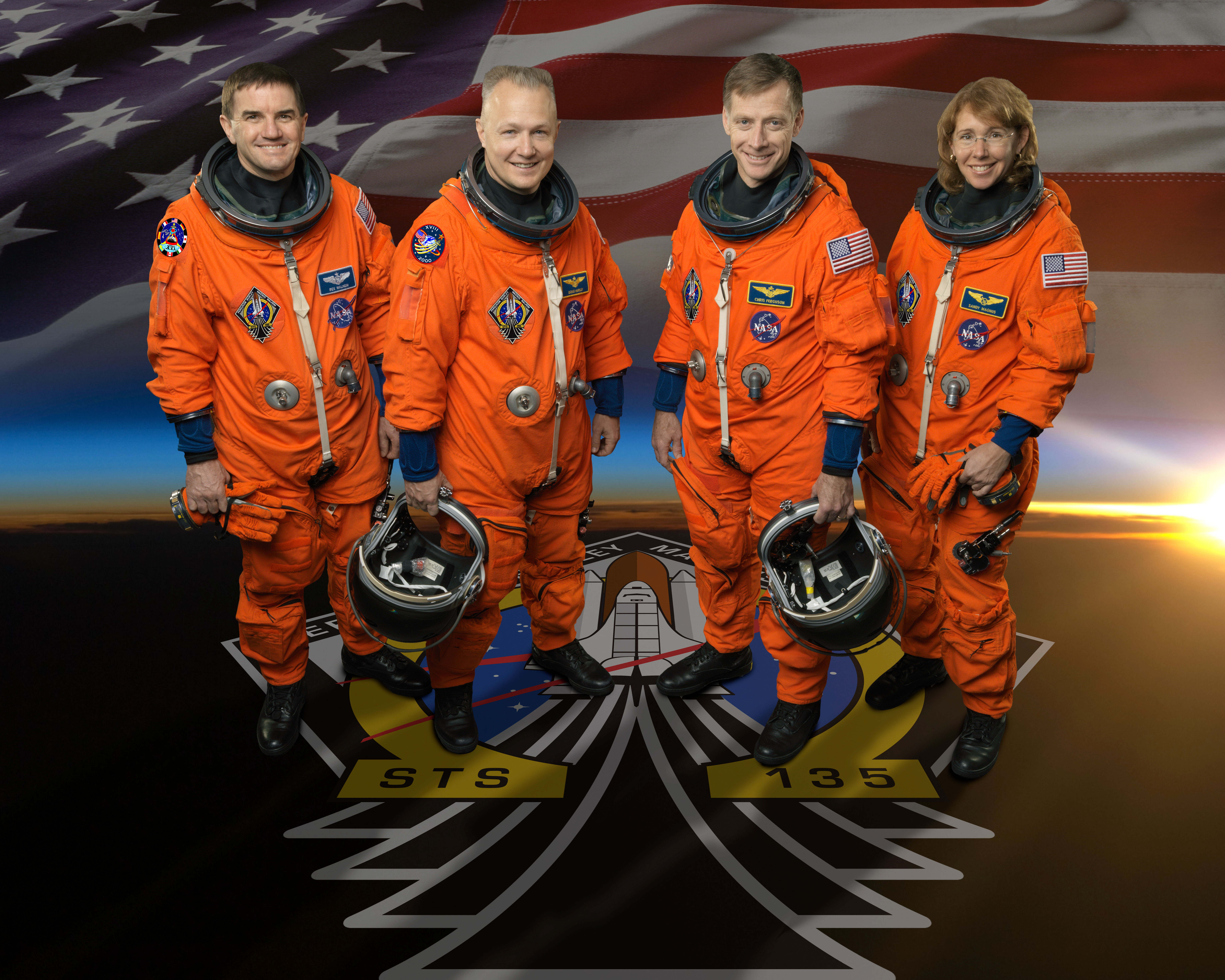 Attired in training versions of their shuttle launch and entry suits, these four astronauts take a break from training to pose for the STS-135 crew portrait. Pictured are NASA astronauts Chris Ferguson (center right), commander; Doug Hurley (center left), pilot; Rex Walheim and Sandy Magnus, both mission specialists.